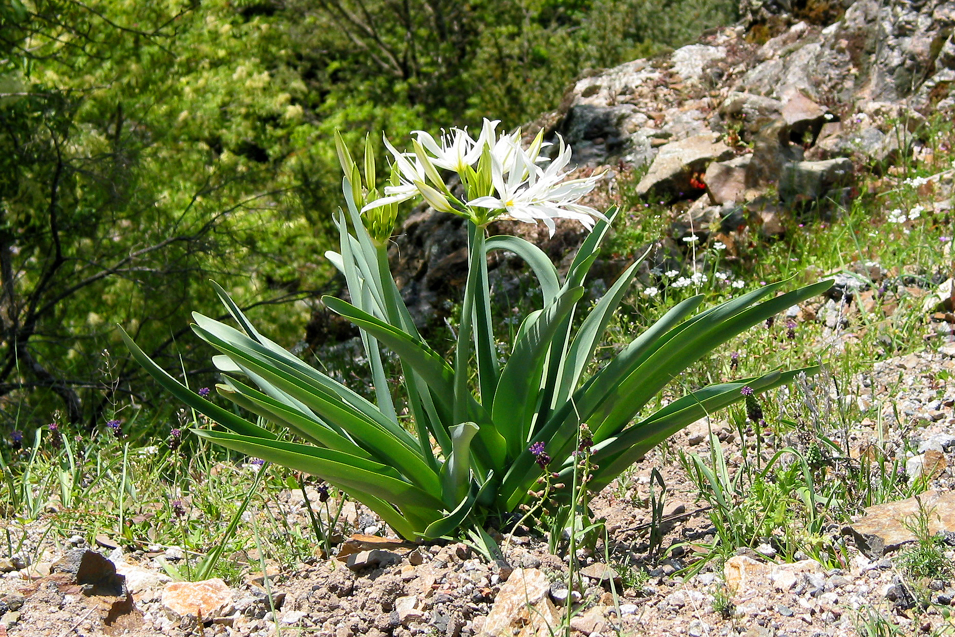 Pancratium illyricum - Habitat: Tolla (Corse-du-Sud) - France, Prunelli gorge.